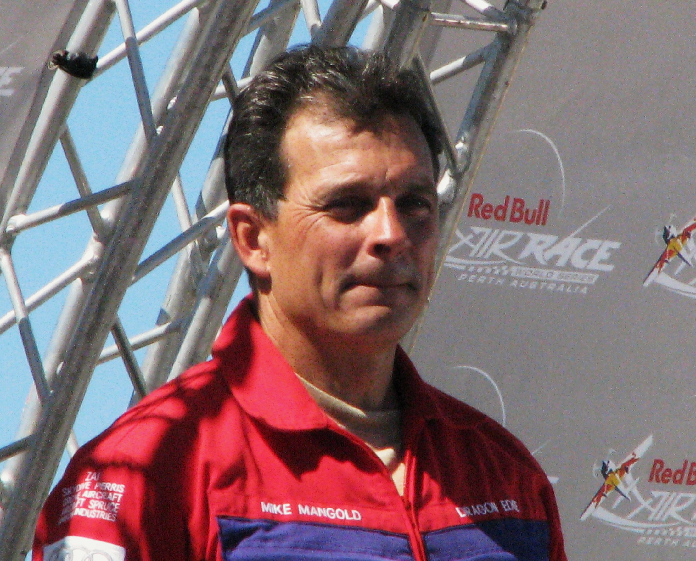 Mike Mangold, 2007 World Champion, Red Bull Air Race, Perth, Australian, 2007, receiving award.